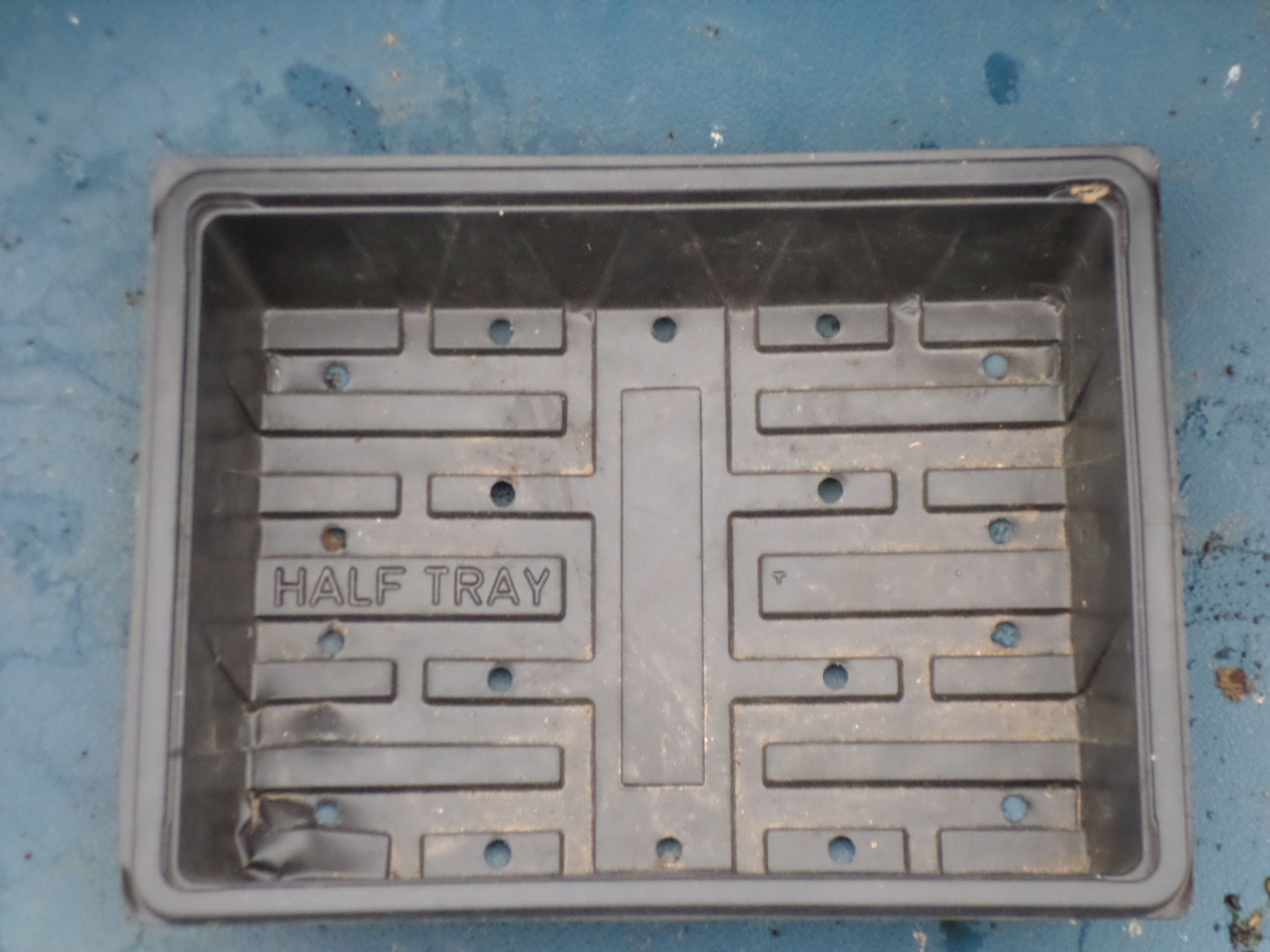 Sowing Tray. Type Half Tray